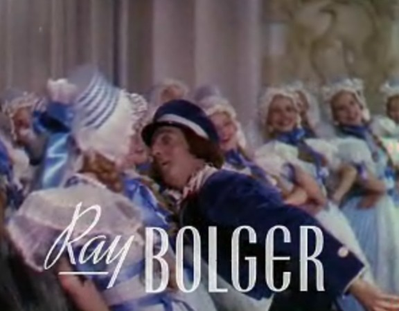 Cropped screenshot of Ray Bolger from the trailer for the film Sweethearts